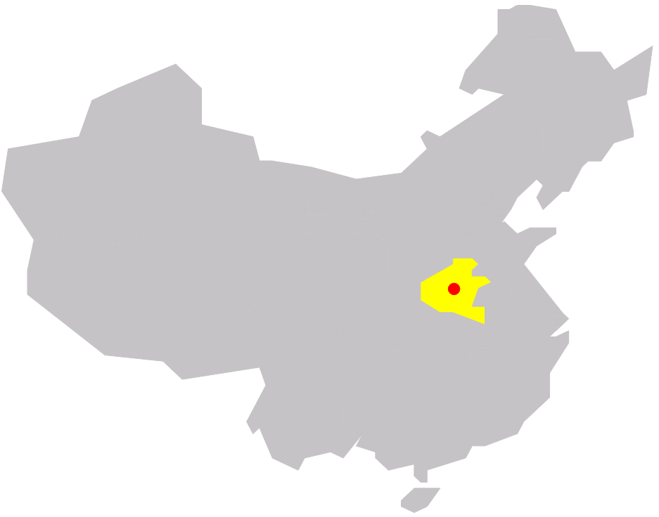 position of Pingdingshan in China